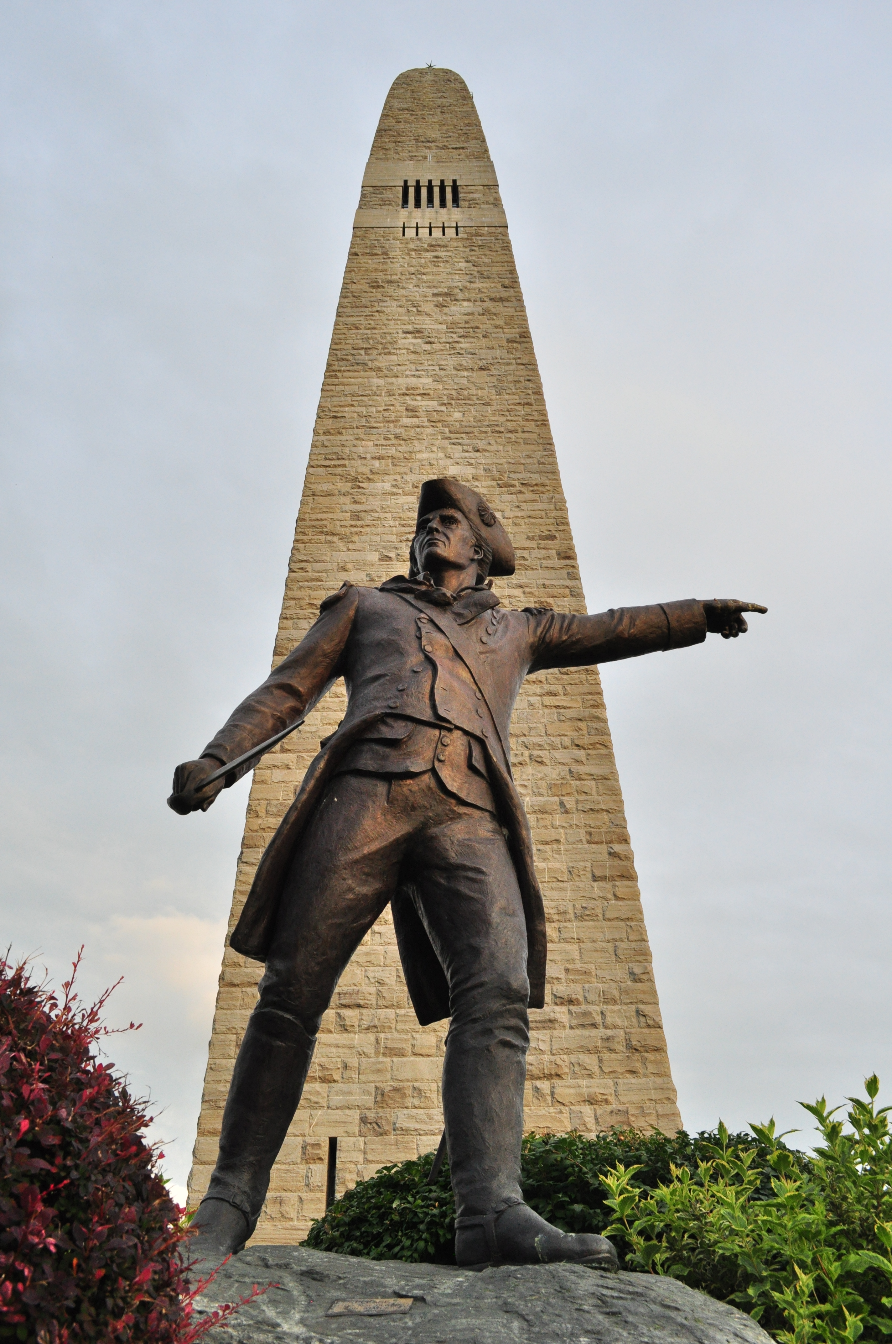 Statue of General John Stark of the Continental Army, Bennington Battle Monument.